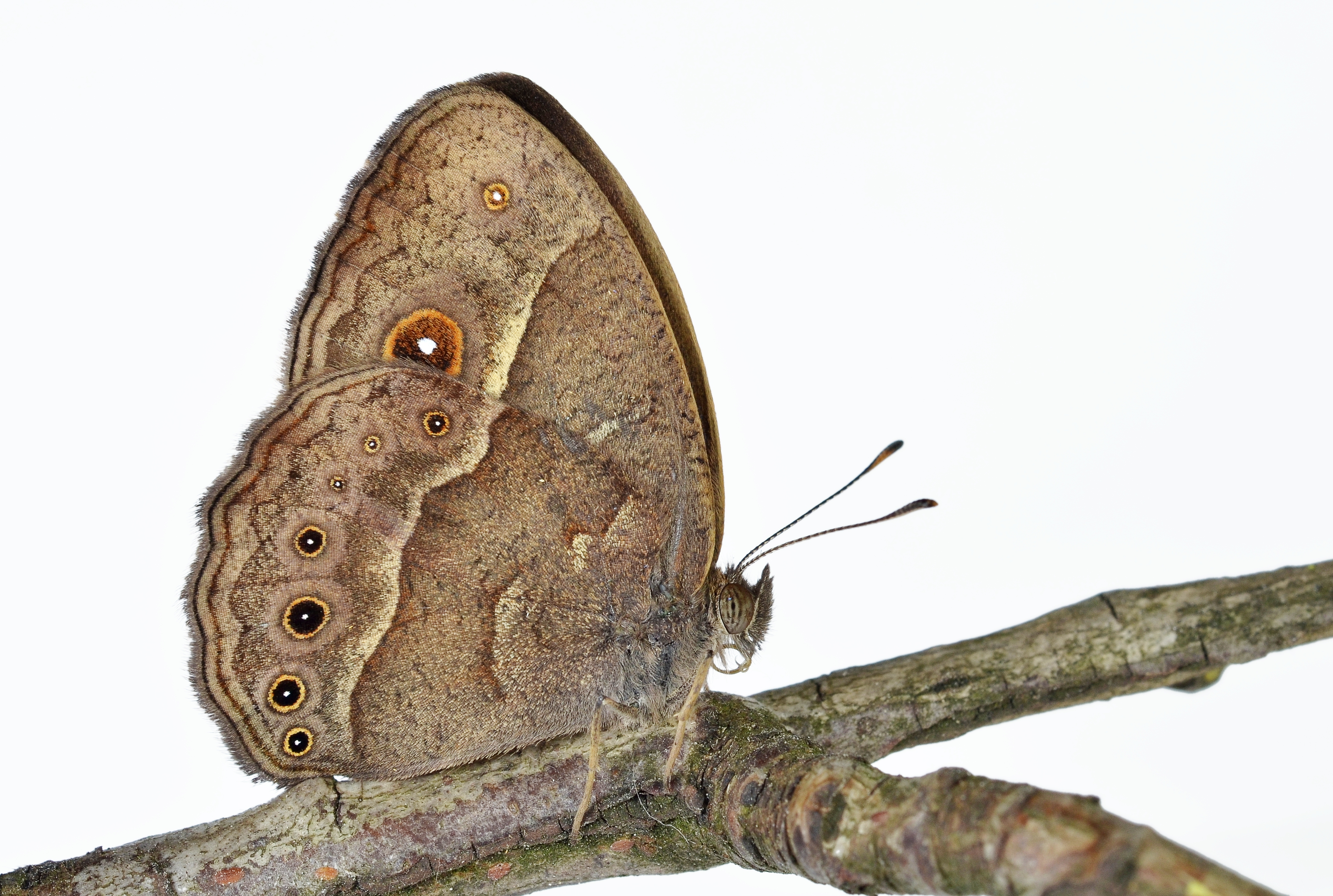 Female Bicyclus anynana (Lepidoptera, Nymphalidae), dry season form from a lab strain (Louvain-La-Neuve, Belgium)